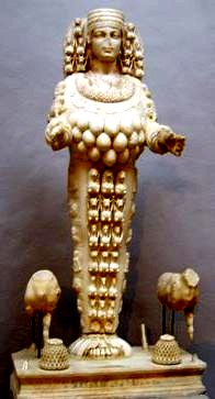 Artemis of Ephesus. 1st century CE Roman copy of the cult statue of the Temple of Ephesus. Statue in the Museum of Efes (Turkey).